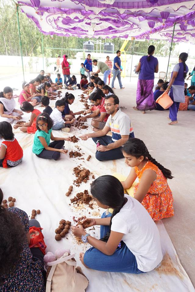 Seedball Event held at PNCCS 2018-19